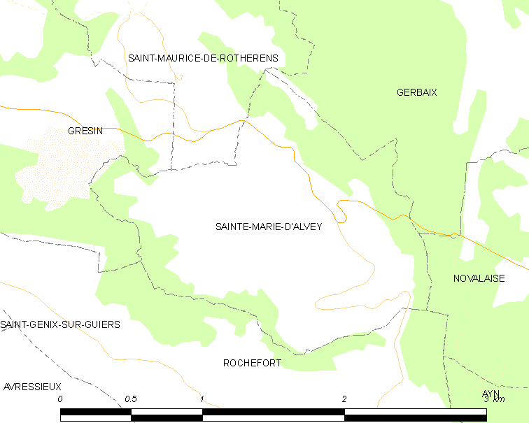 Map of French municipality